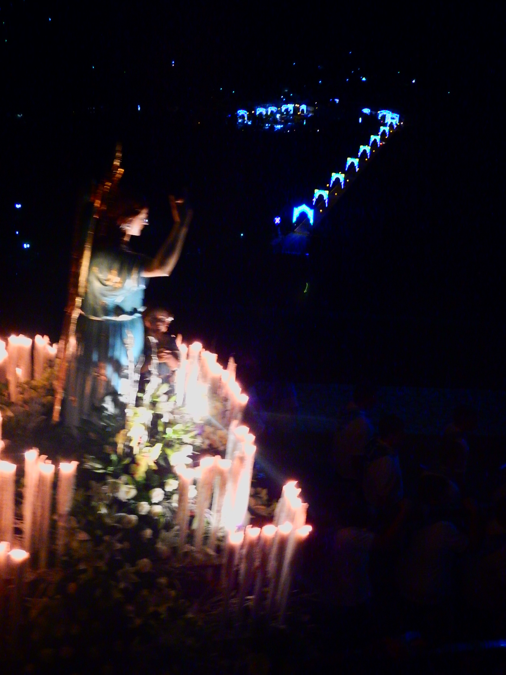 summer feast of the Guardian Angel in Fondachelli-Fantina, Sicily